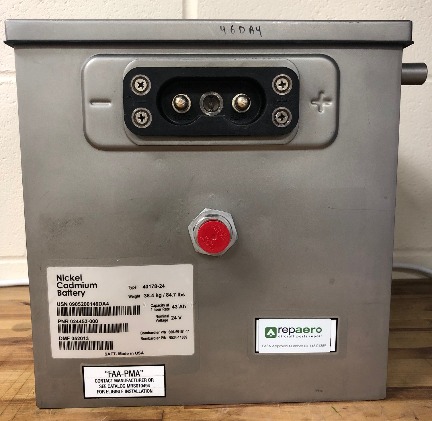 Saft aviation battery.